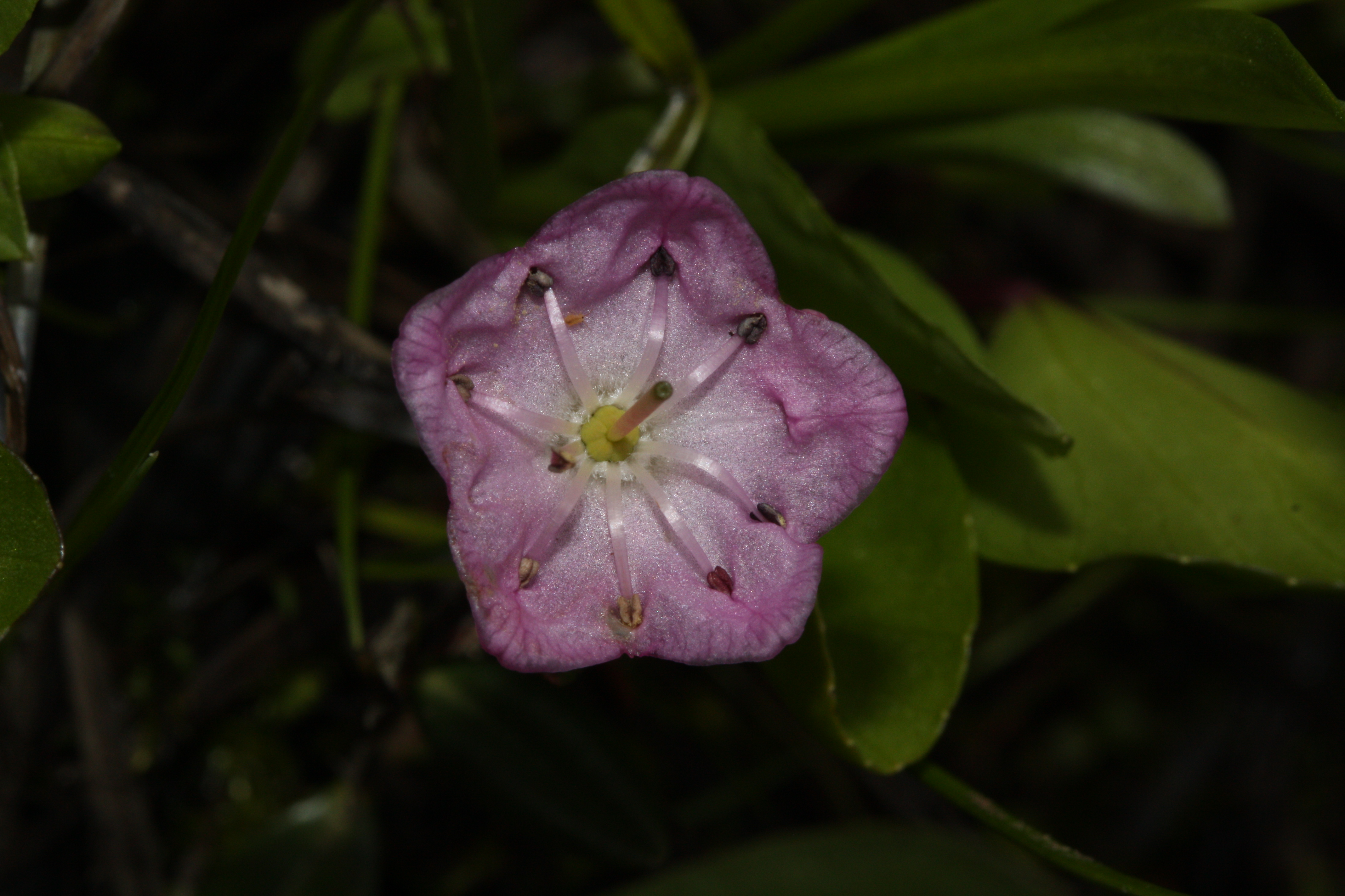 Western Swamp Laurel, Alpine Laurel